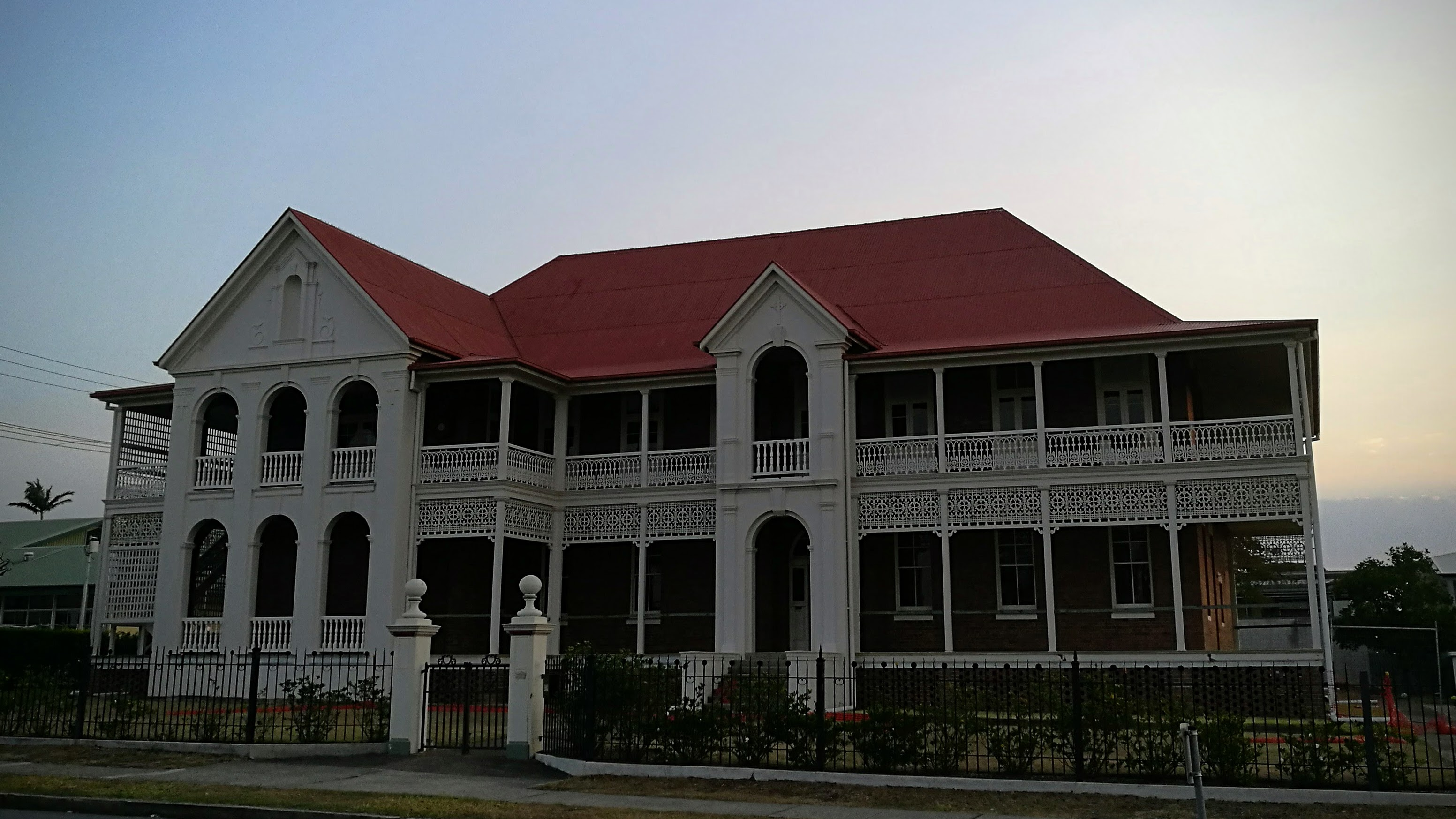 Guardian Angels Catholic School